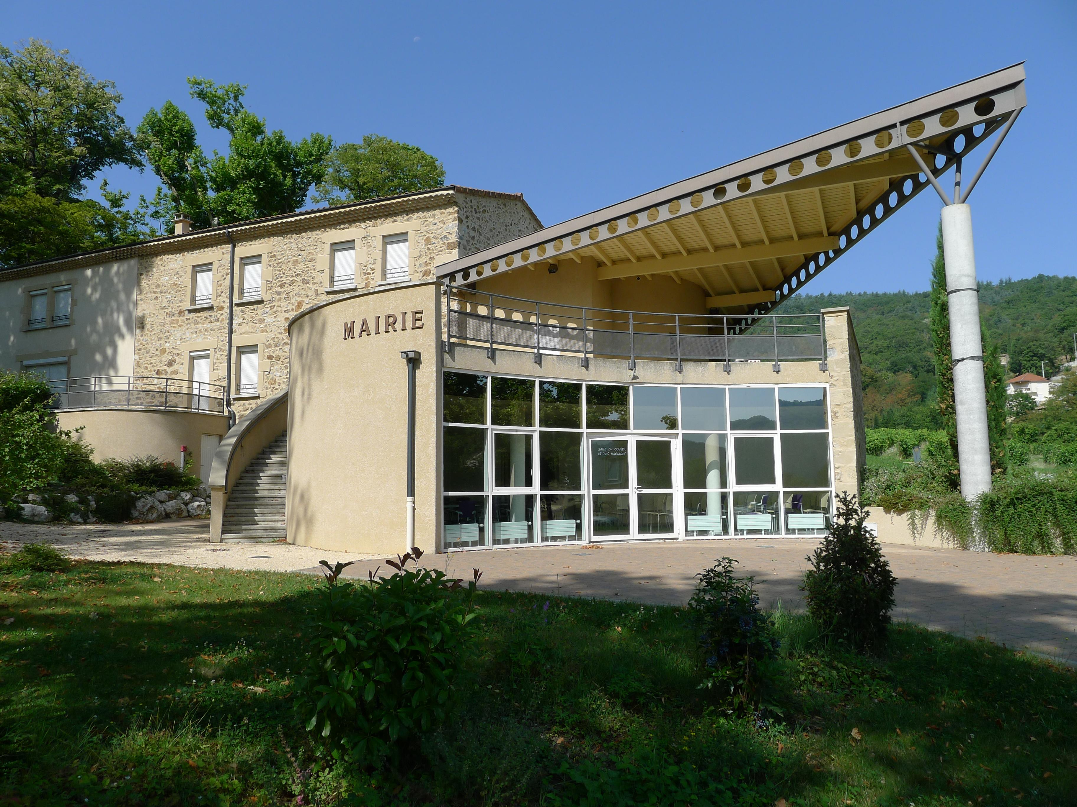 Town hall of Saint-Jean-de-Muzols - Ardèche - France